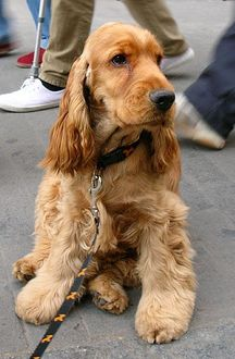 cocker spaniel ingles